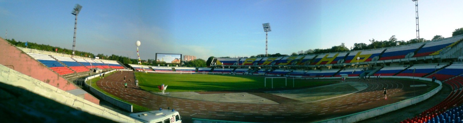 CSK Stadium in Ryazan. Panorama of stadium from sector A.